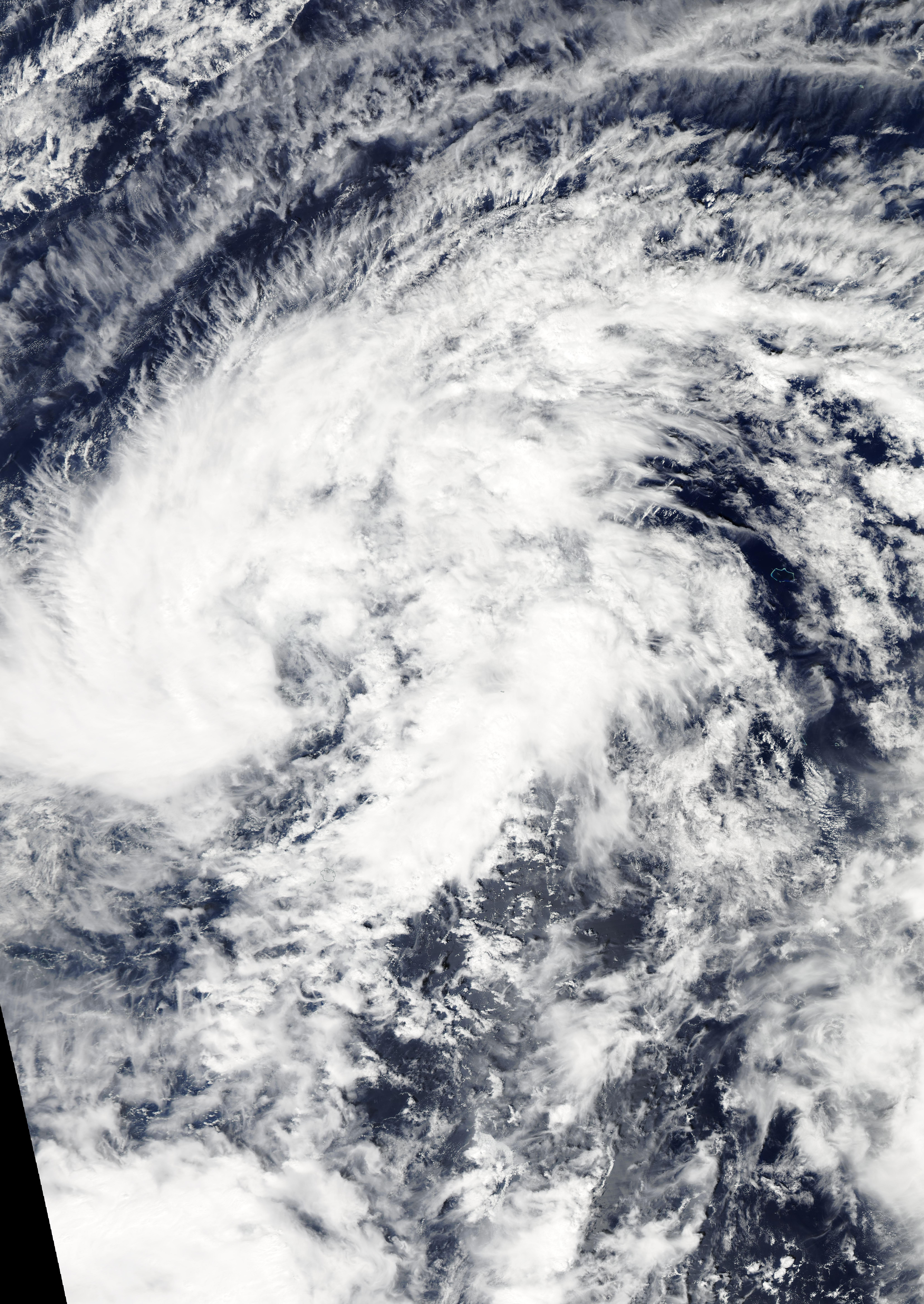 The third tropical depression (JMA) of the 2015 Pacific typhoon season on February 7, 2015. JTWC named it 94W and then TD 02W.